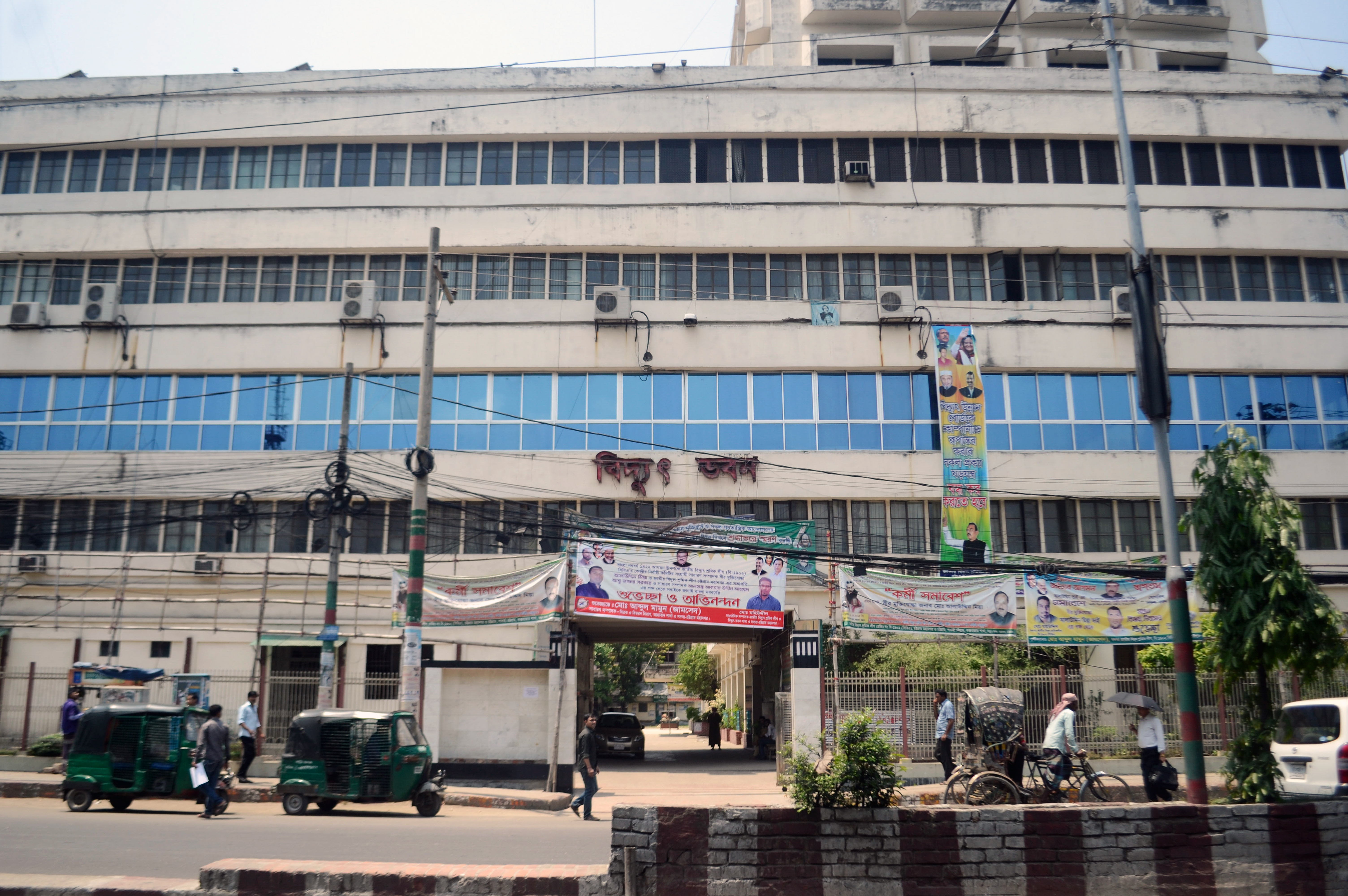 Bidyut Bhaban, Chittagong